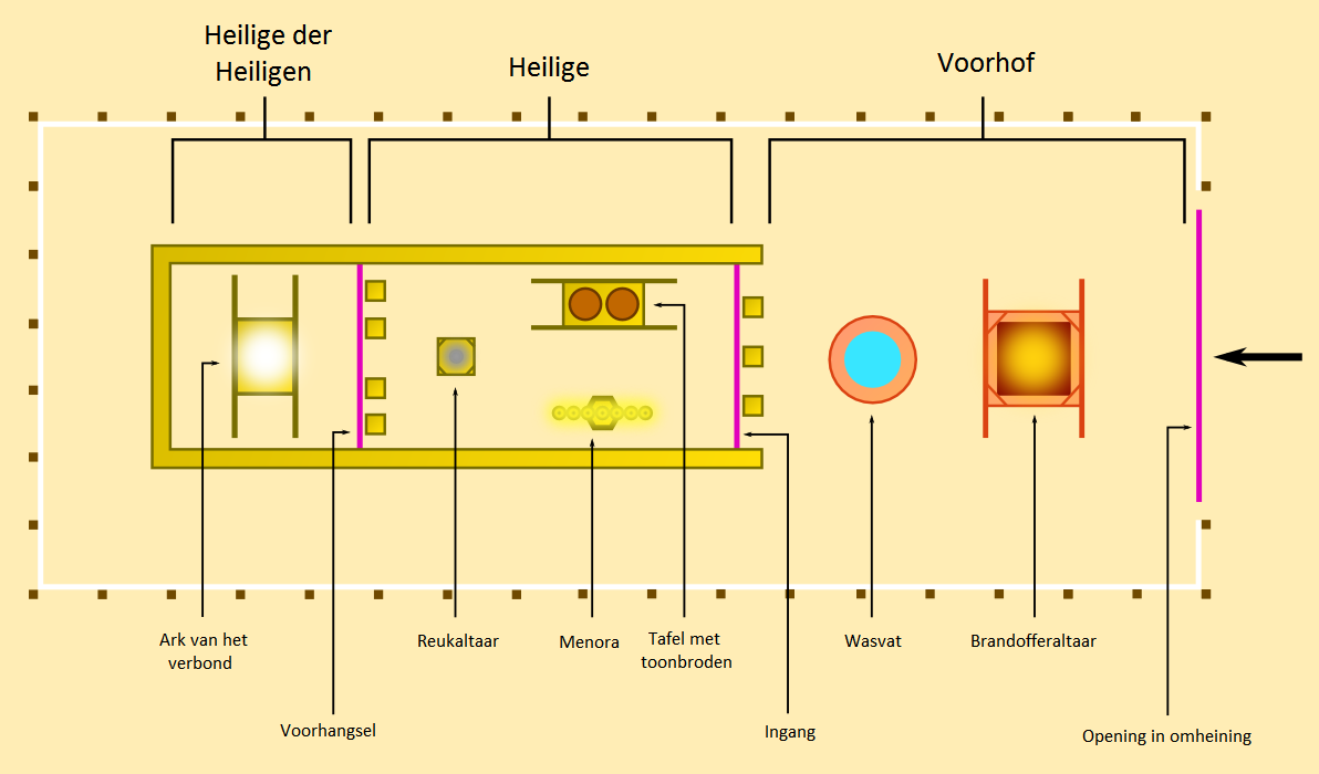 Schematic plan of the Jewish Tabernacle with explanation in Dutch.